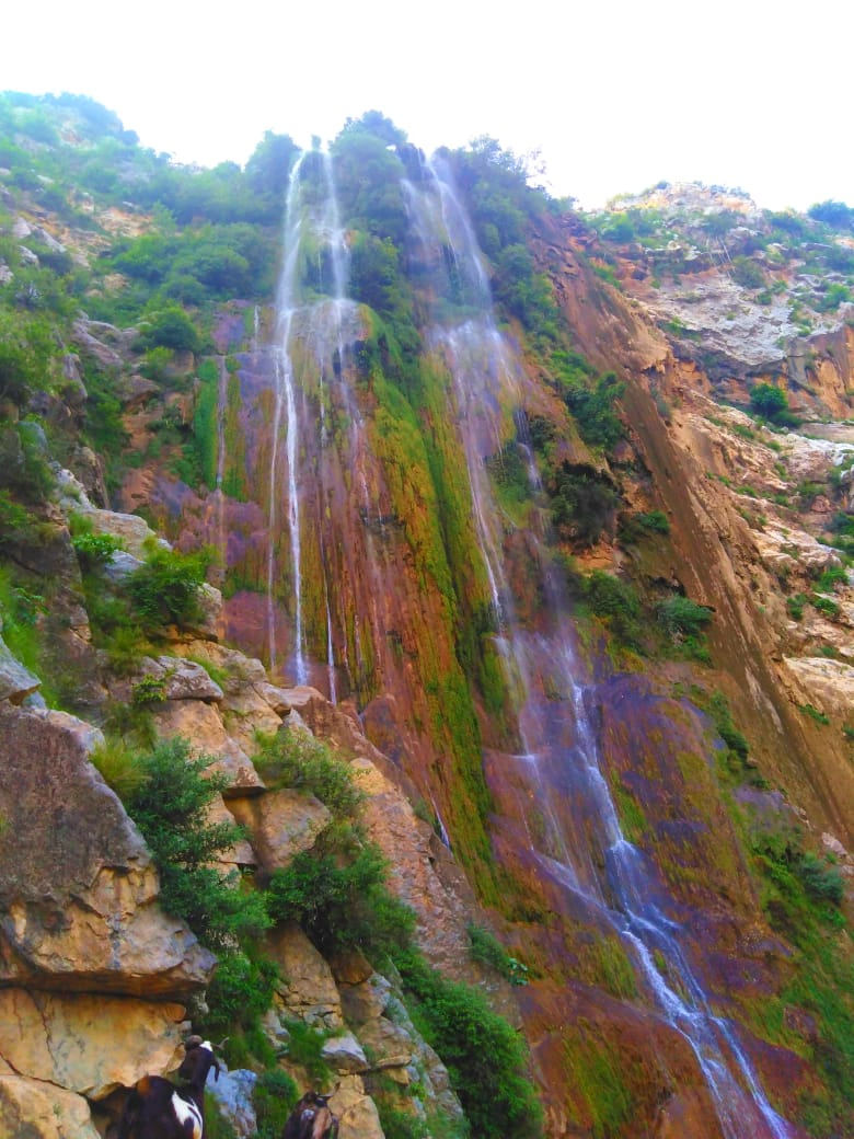 picture was taken by Huawei Y7 Prime, Chajian Village Haripur